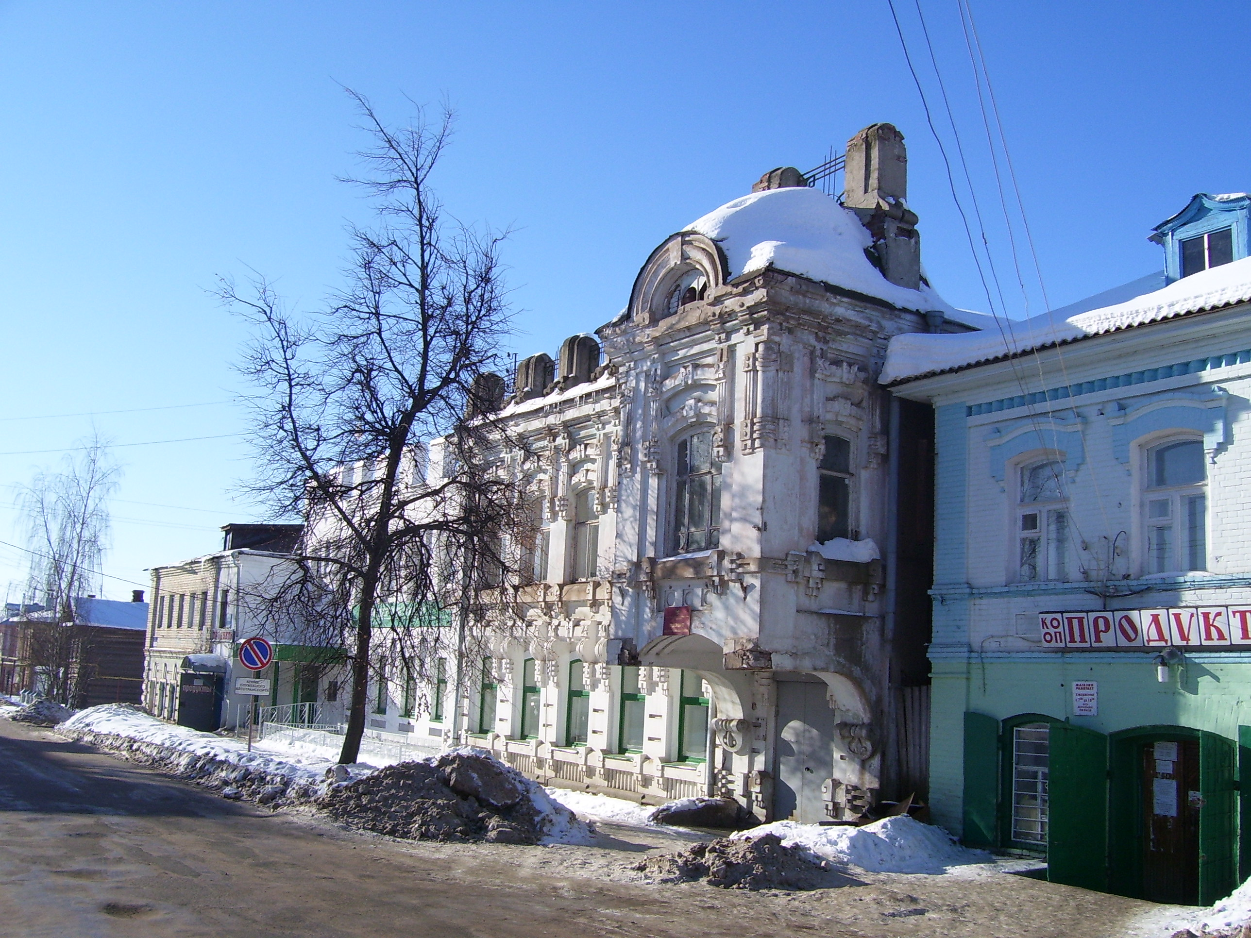 Улицы Б.Мурашкино